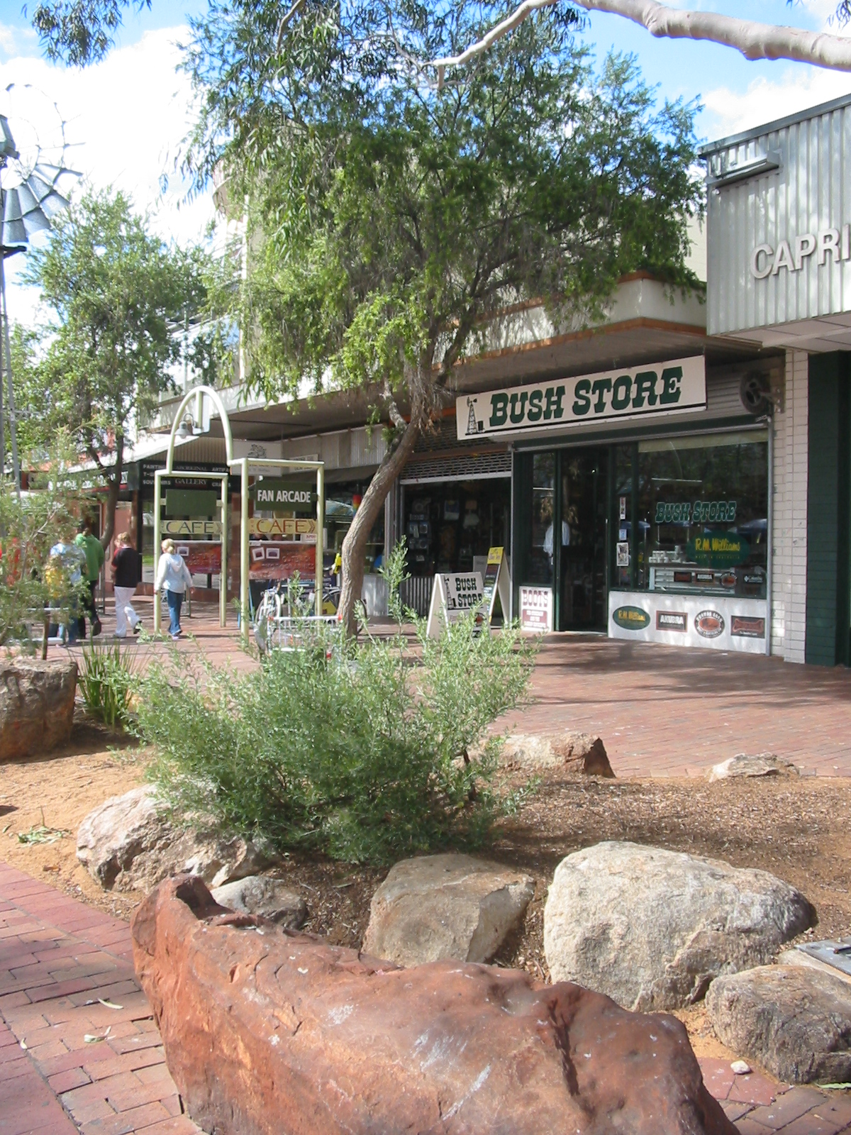 Todd Mall in Alice Springs